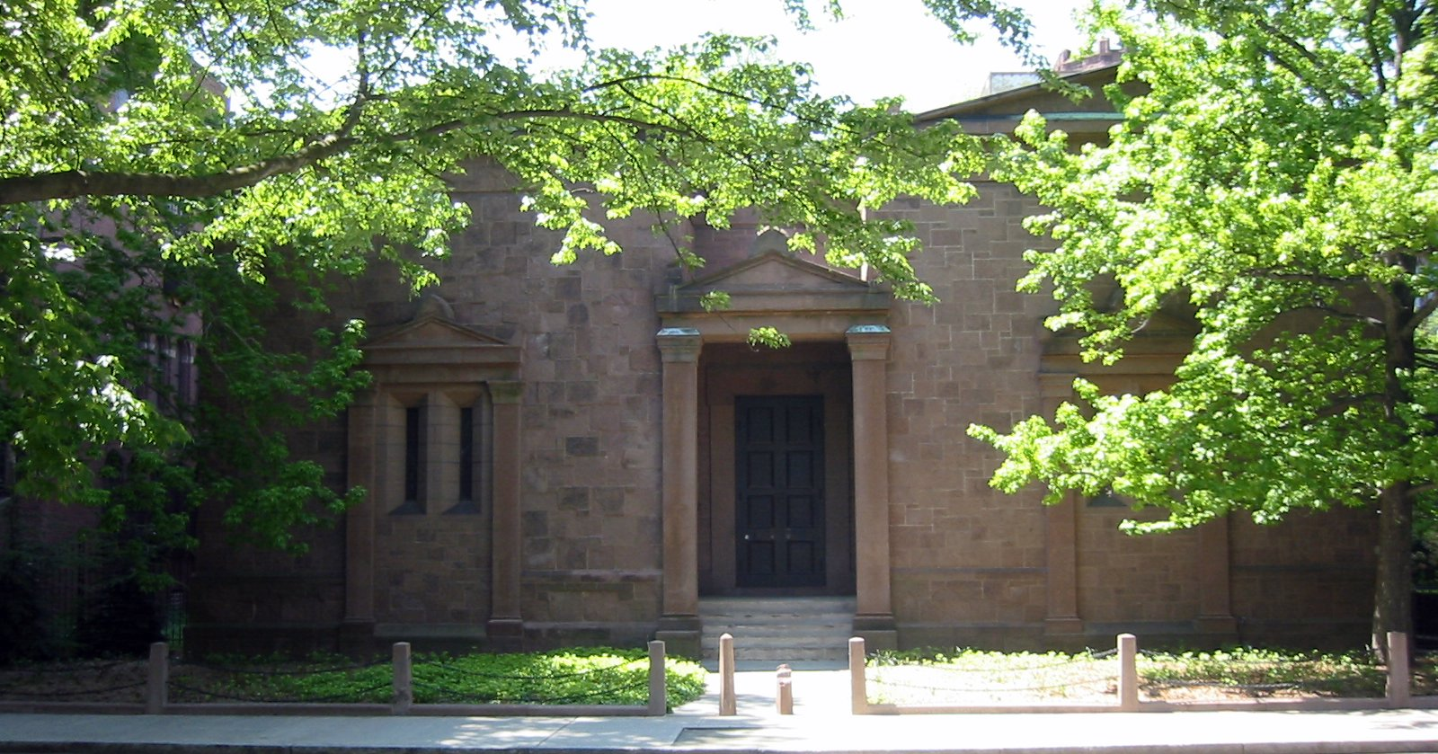 The Skull & Bones Tomb, circa 2006.